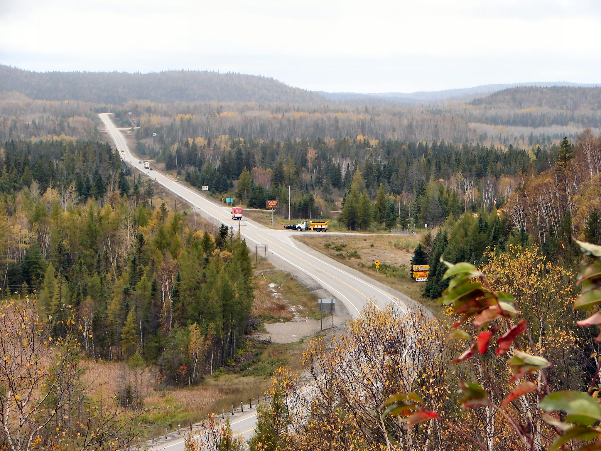 Highway 17 at Wawa, Algoma District, Ontario, Canada